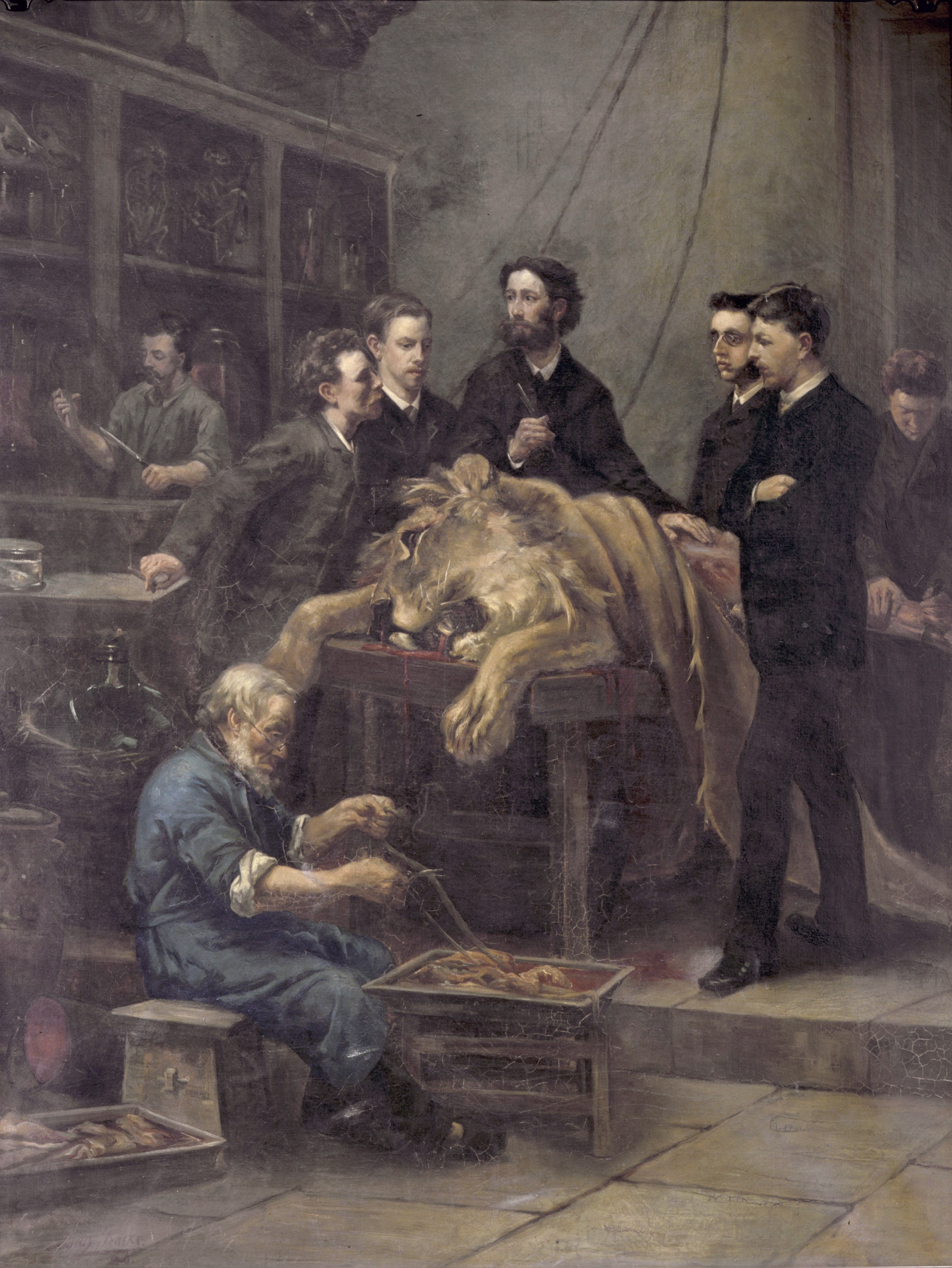 The Anatomy Lesson of Max Weber oil on canvas 180 x 120 cm 1886 identification: from left to right, assistent Sleking, J.M. Janse, J.Th. Oudemans, prof. Weber, F.A.F.C. Went, unknown observer, son of assistent Sleking. In front, an old man, known as 'the last whaler' signed and dated l.l.: ... Stracke / ...